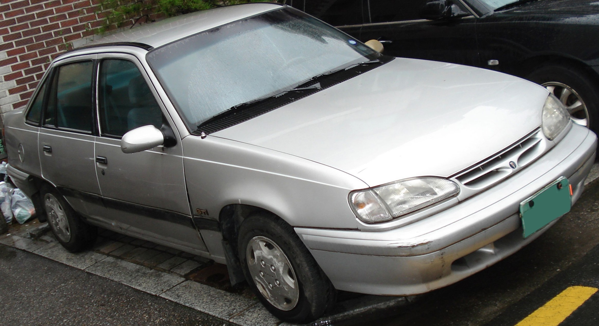 Daewoo New LeMans